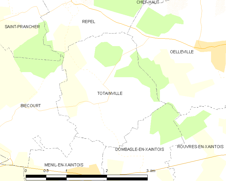 Map of French municipality Totainville